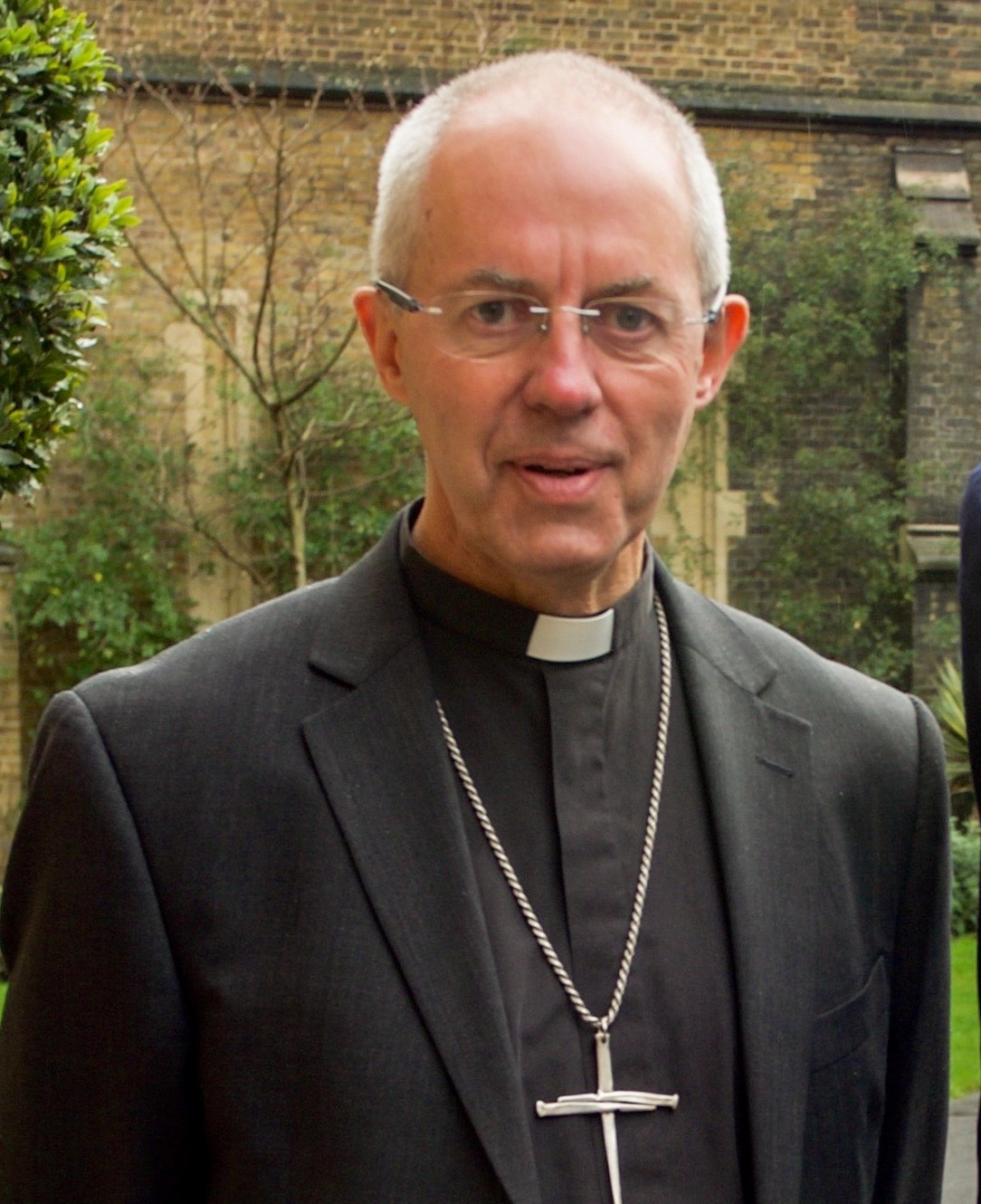 U.S. Secretary of State John Kerry and Archbishop of Canterbury Justin Welby stand outside Lambeth Palace in London, U.K, on January 16, 2017, after they held a private meeting to speak about world reconciliation efforts. [State Department photo/ Public Domain]